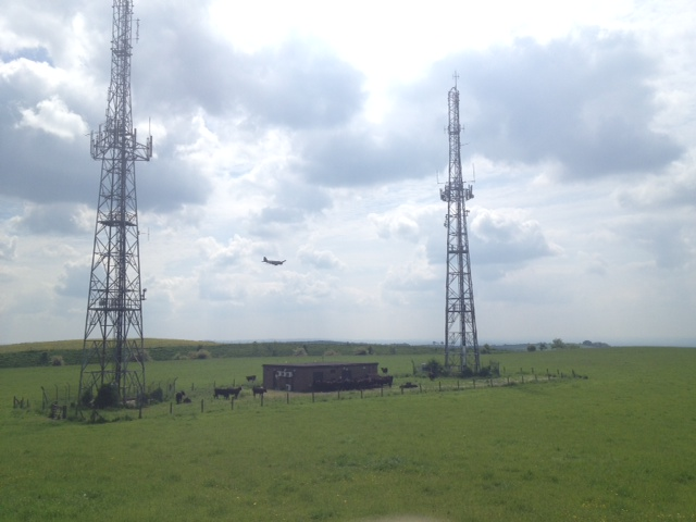 A photo of the peak of Morgan's Hill, Devizes, Wiltshire, UK showing two communcations masts and ancillary building.